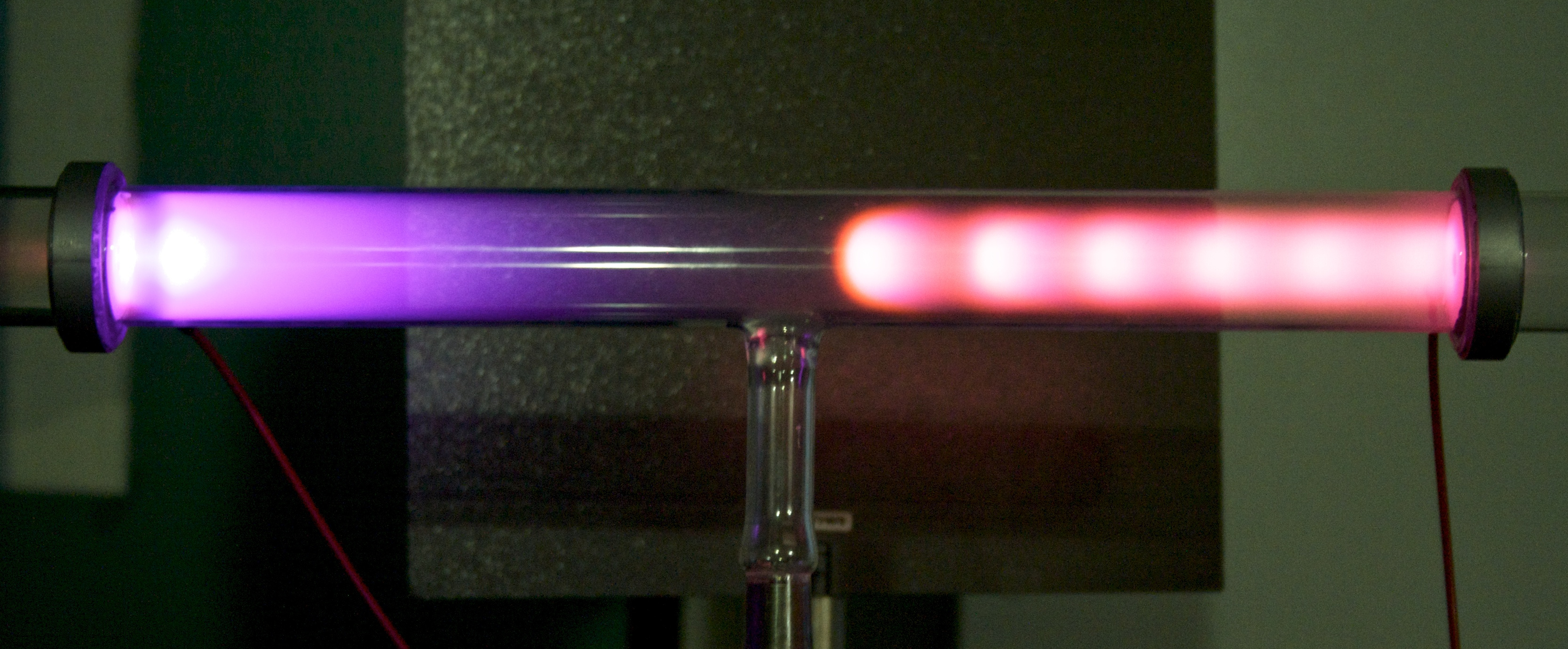 A classic glow discharge in a Crookes tube, a glass gas discharge tube evacuated to a pressure of around 10-5 - 10-6 torr, with a metal electrode inside at either end. The glow is due to a voltage of several thousand volts applied between the electrodes, which causes the gas inside the tube to ionize, allowing a current to pass through it. The cathode (negative electrode) is on the left, the anode (positive electrode) is on the right. The regions of the discharge from left to right are: Cathode glow - the first purplish bright region on the left next to the cathode Cathode dark space - the darker band between the two brighter region next to the cathode. Negative glow - the second larger purplish bright region next to the cathode Faraday dark space - the wide area without a glow near the center of the tube Positive column - the pinkish glowing column filling the right side of the tube. The column shows a common feature called striations, alternating bright and dark bands, caused by an instability in the plasma. Anode glow - the especially bright layer adjacent to the anode on the extreme right. Alterations to original image: cropped